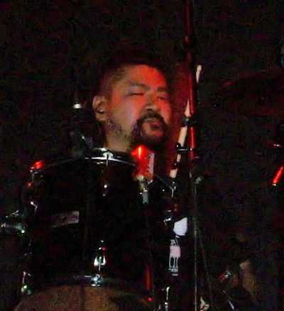 Japanese heavy metal band Loudness drummer Masayuki Suzuki, live at the Knust in Hamburg, Germany, 20-07-2010